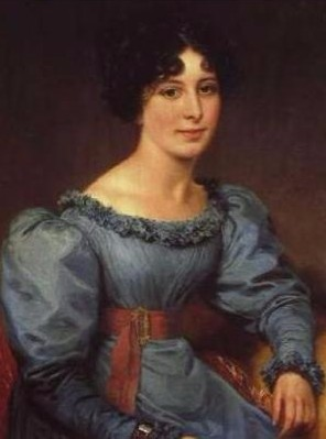 Portrait of Oriana Jane Souper, nee Reinagle, wife of Philip Dottin Souper (c.1801–1861), by her father.